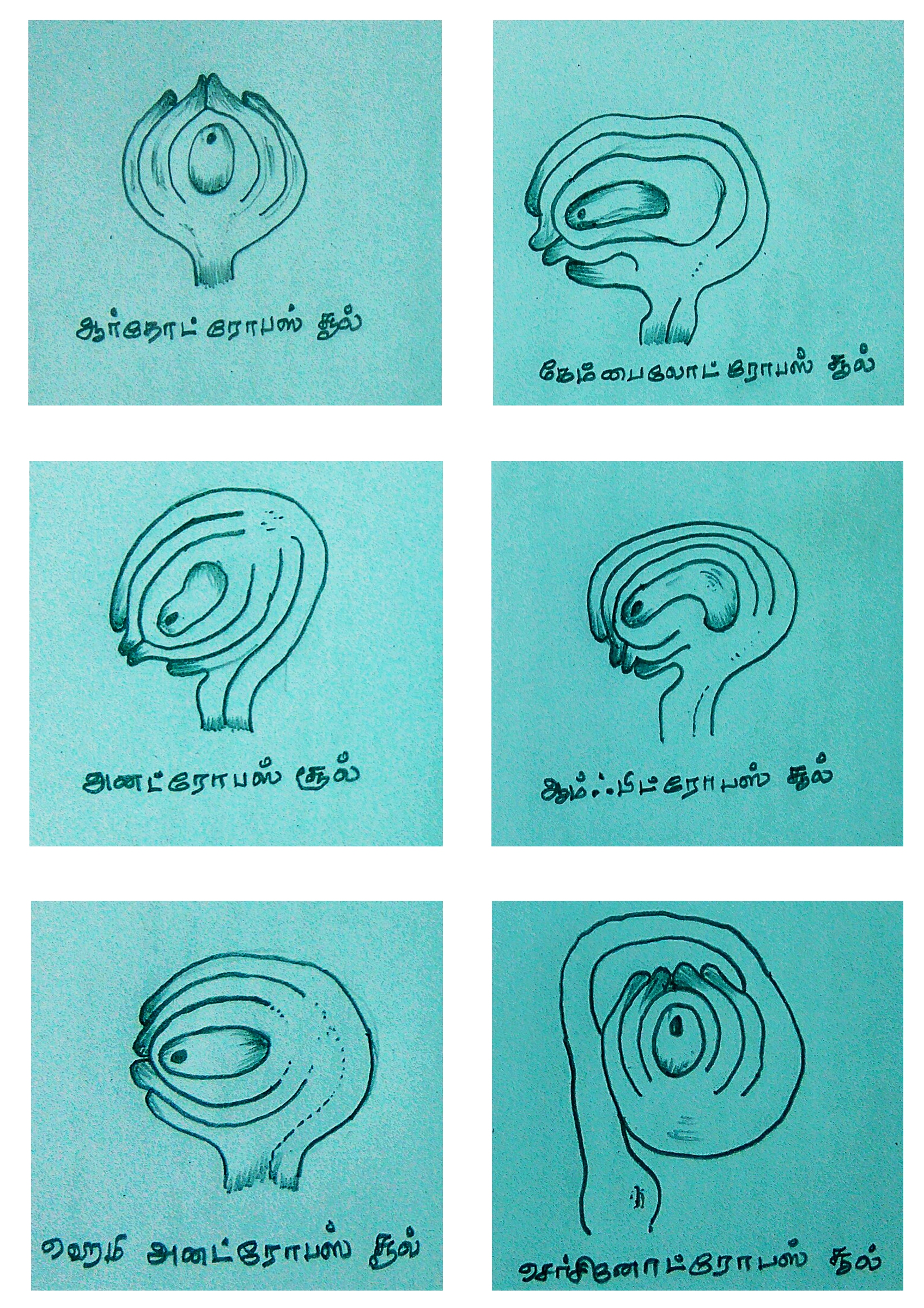 This is dierent types of plant megaspore strcture.